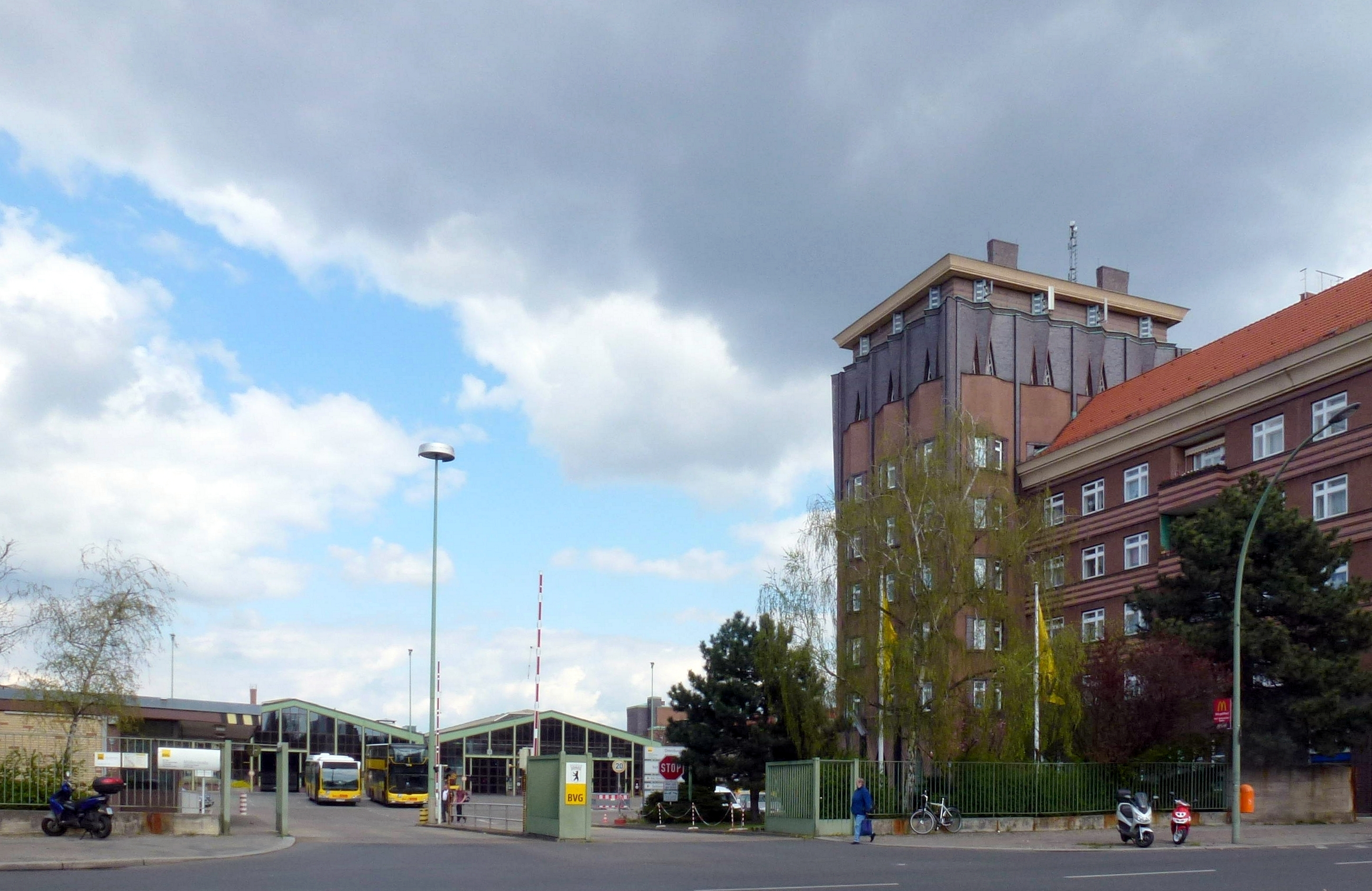 Berlin-Wedding Müllerstraße BVG-Betriebshof